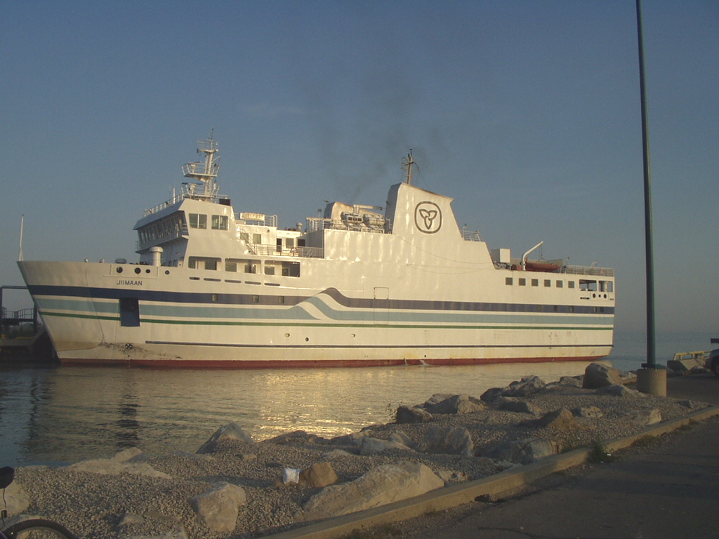 MV Jiimaan leaves port at Kingsville for Pelee Island.